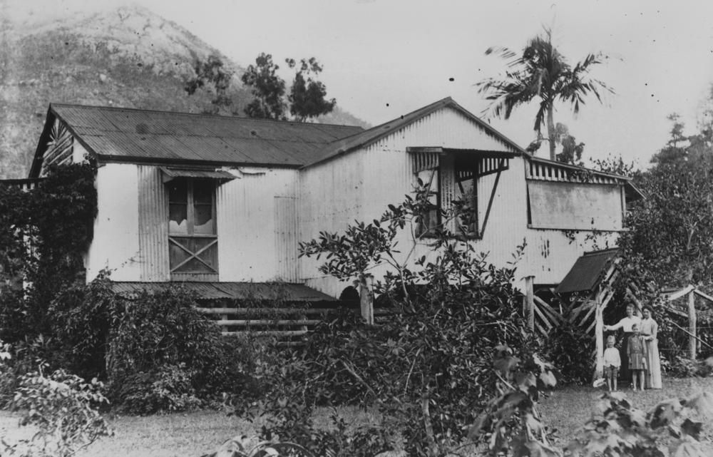 Inglenook, Mt. Jukes, 1909. Can you help us describe this image?.